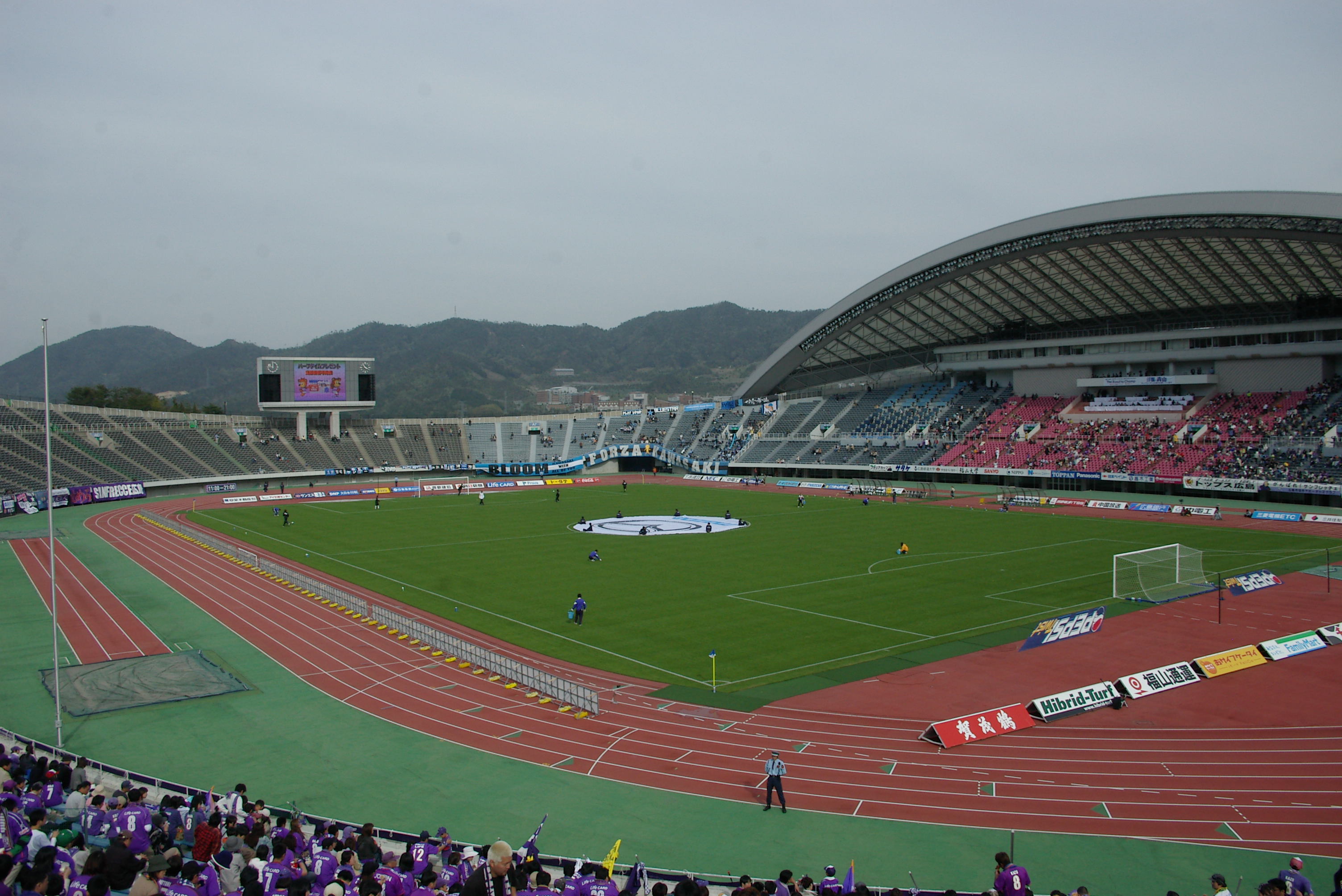 Hiroshima Bigarch Stadium.